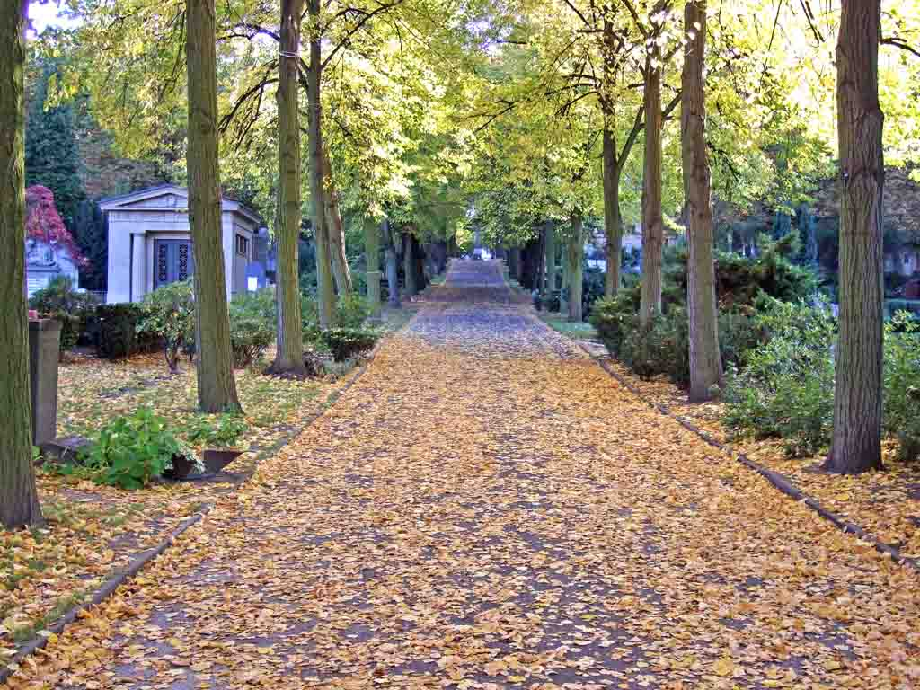 Cemetery of the Old St. Matthew's Church, Berlin